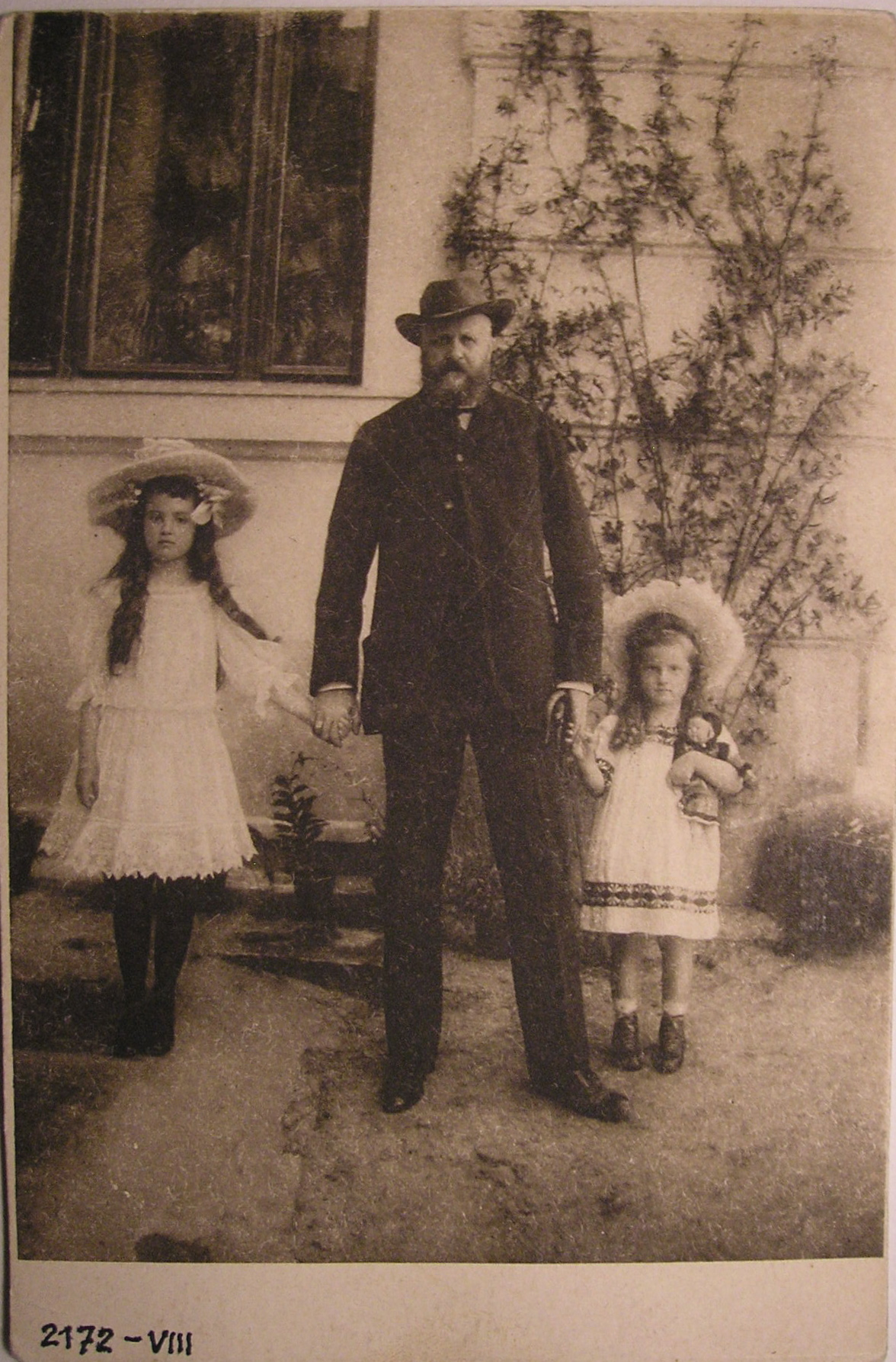 Count Karol Lanckoroński with his daughters Karolina and Adelajda